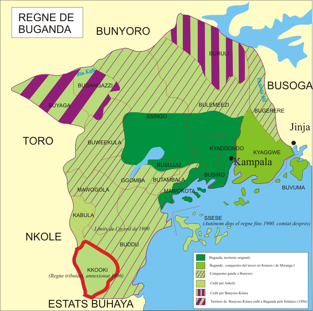 Buganda, historical map